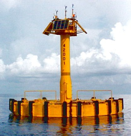 Gulf of Mexico buoy #42001 from U.S. government's National Data Buoy Center page [1]